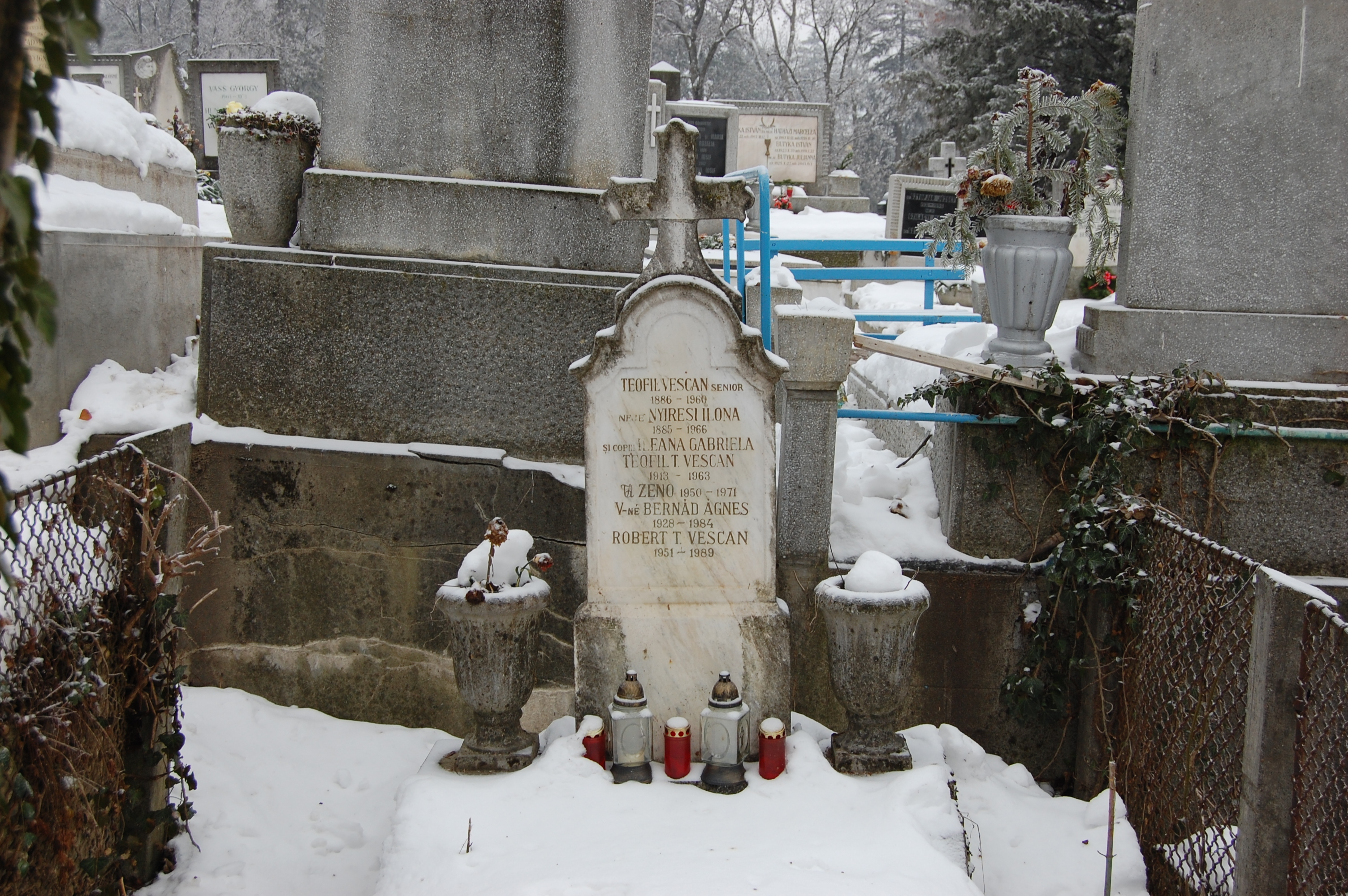 Grave of Teofil T. Vescan (1915-1963) physicist, Romanian university professor 334